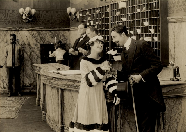 Fay Tincher and Chester Withey in Sunshine Dad (1916) - publicity still